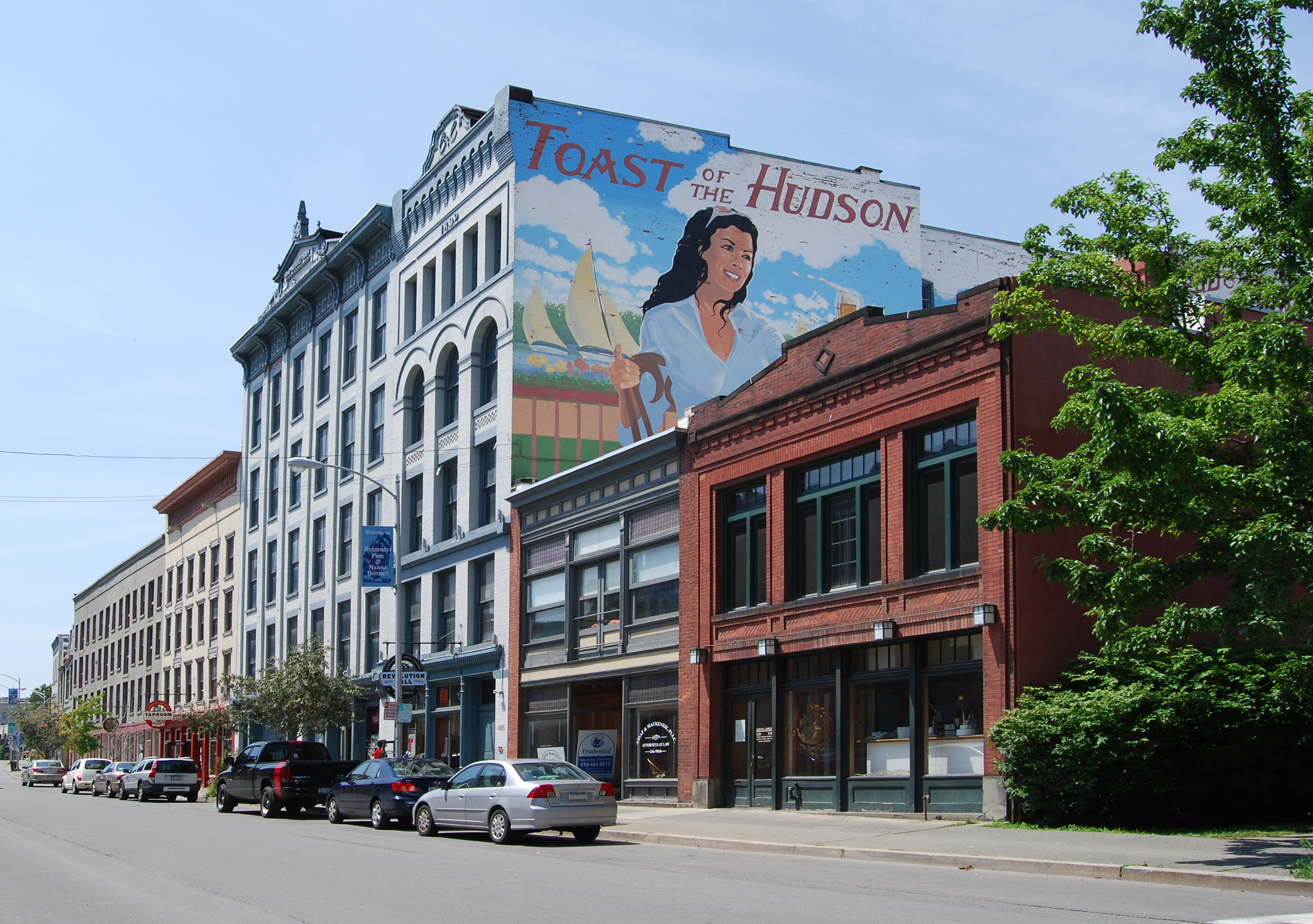 Northern River Street Historic District in downtown Troy, New York, United States